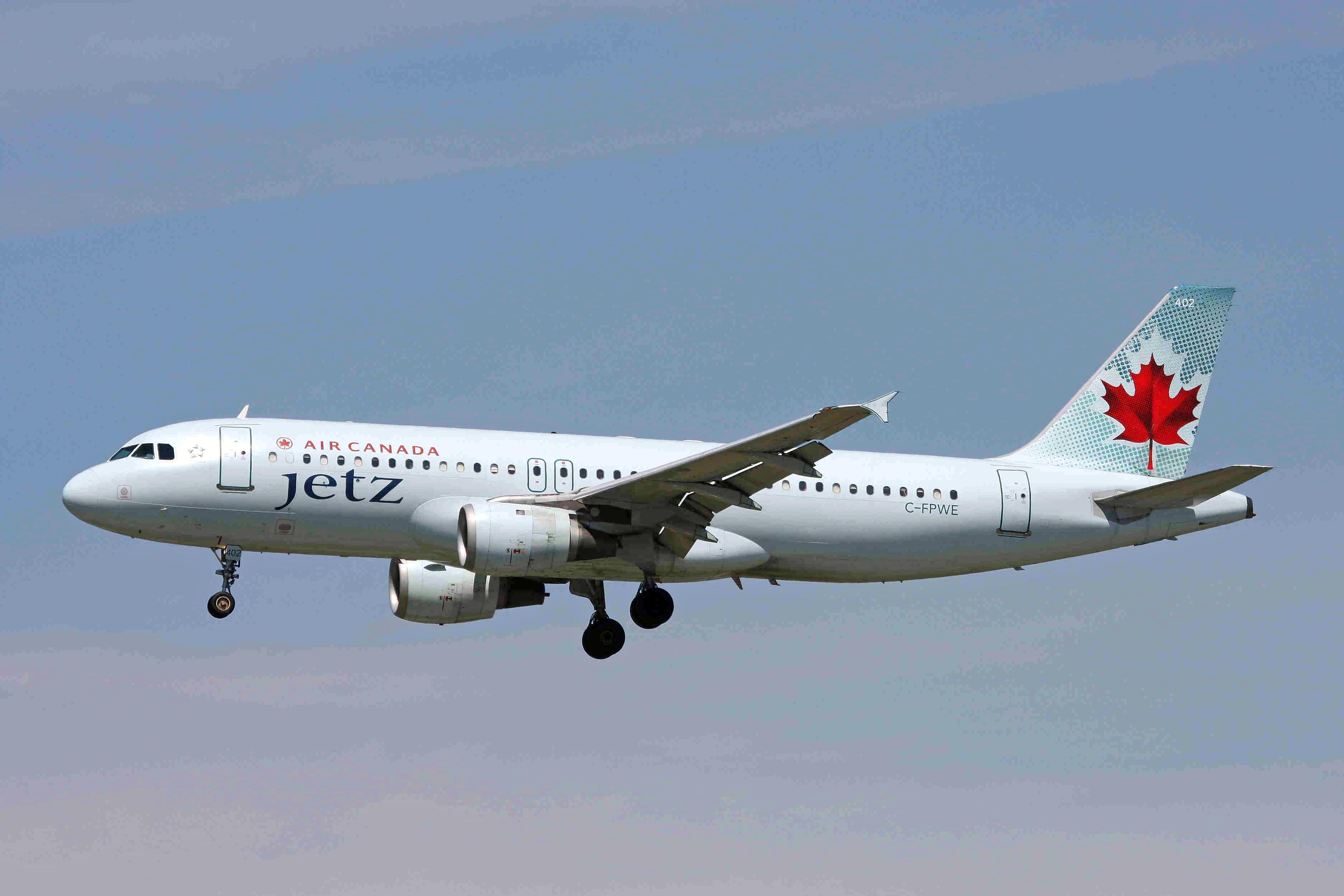 C-FPWE A320-211 Air Canada Jetz YVR